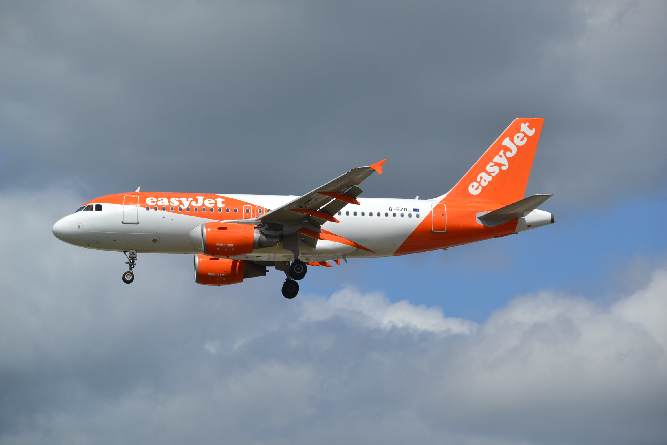 Airbus A319 of EasyJet on final approach for rwy.26L at London Gatwick-LGW, 12/05/15.